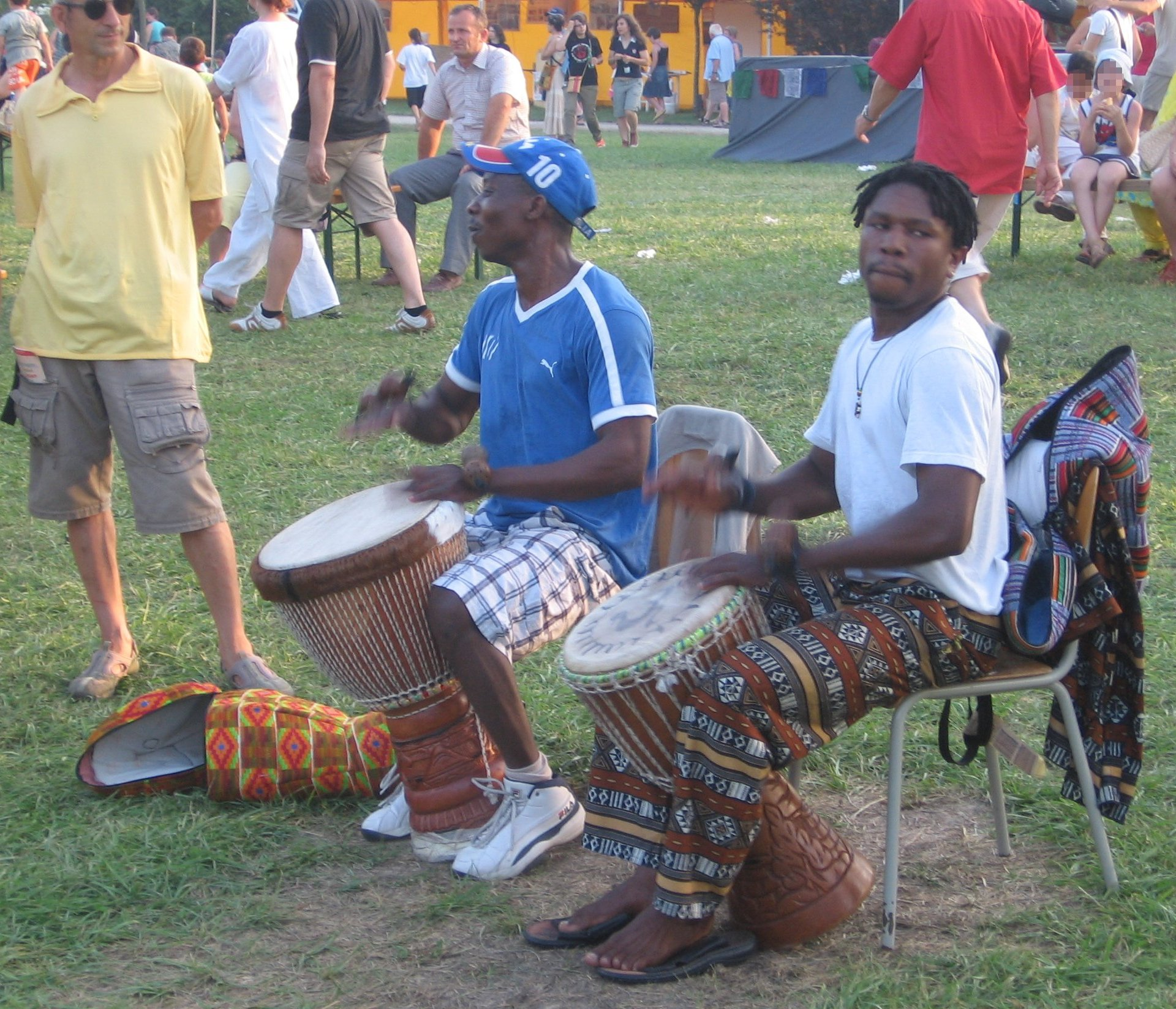 Some Djmbé player at Festmbiente 2007 Vicenza